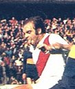 Image of Daniel Onega cropped from a public domain image bt User:King of the North East